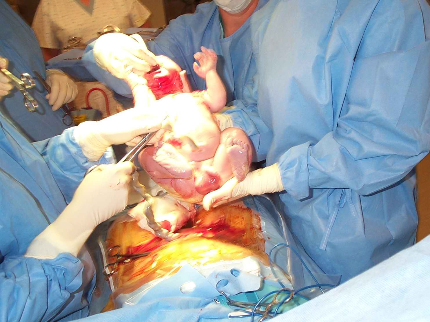 A view of birth by caesarian section: this is the photographer's son as the cord was clamped.